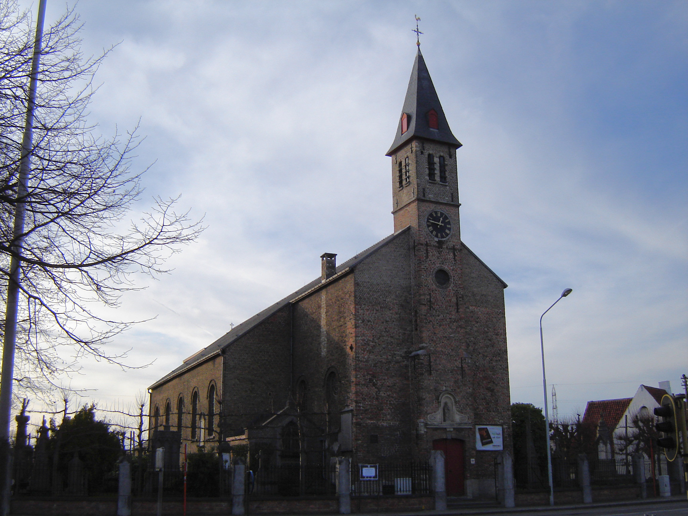 Church of Saint Peter in Sint-Pieters. Sint-Pieters, Brugge, West Flanders, Belgium.